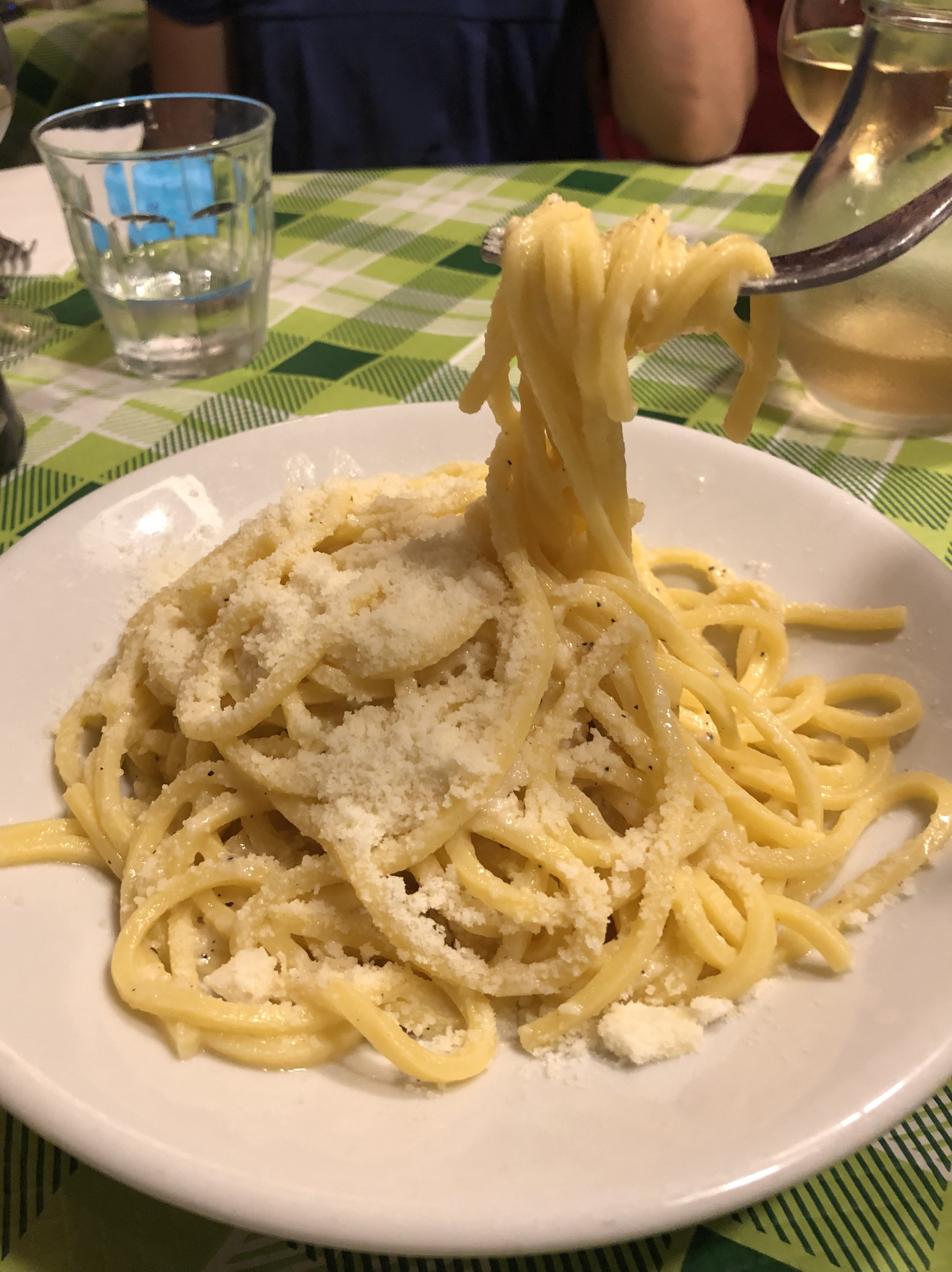 A plate of traditional cacio e pepe with tonarelli at a trattoria in Rome